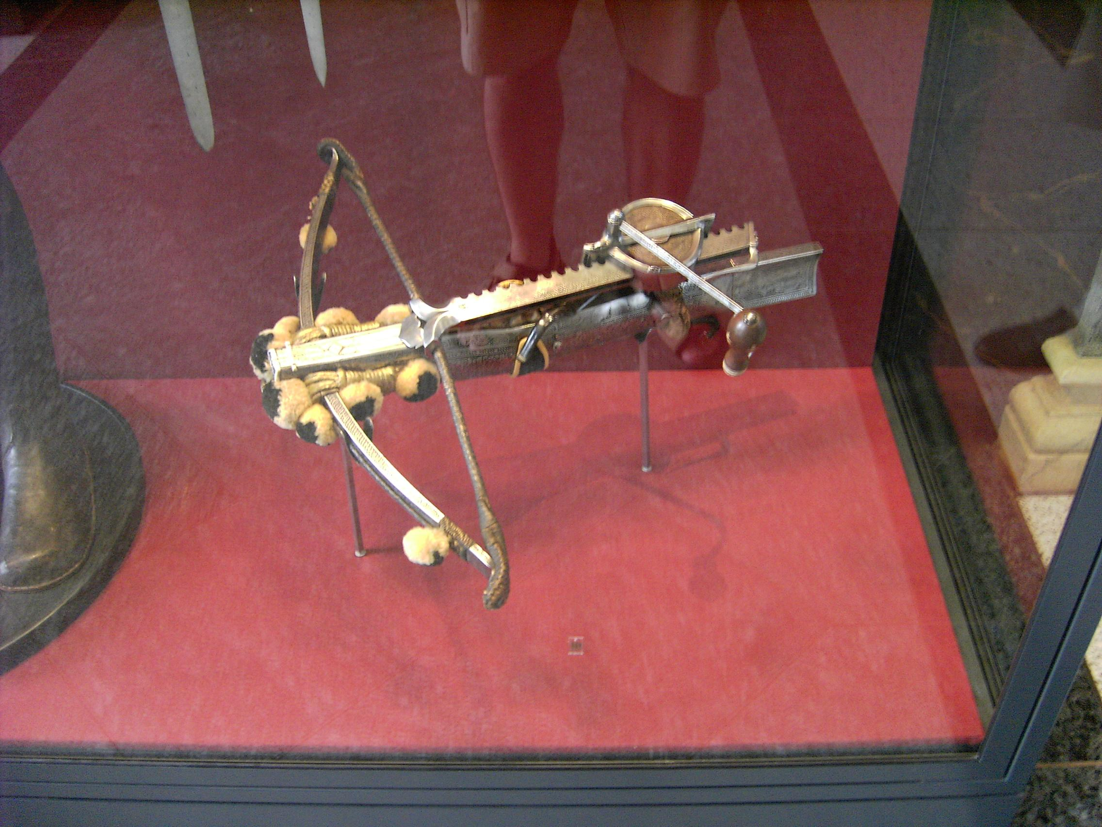 Dresdner Zwinger, 16th or 17th century armour and weapons, Crossbow with loading device attached.